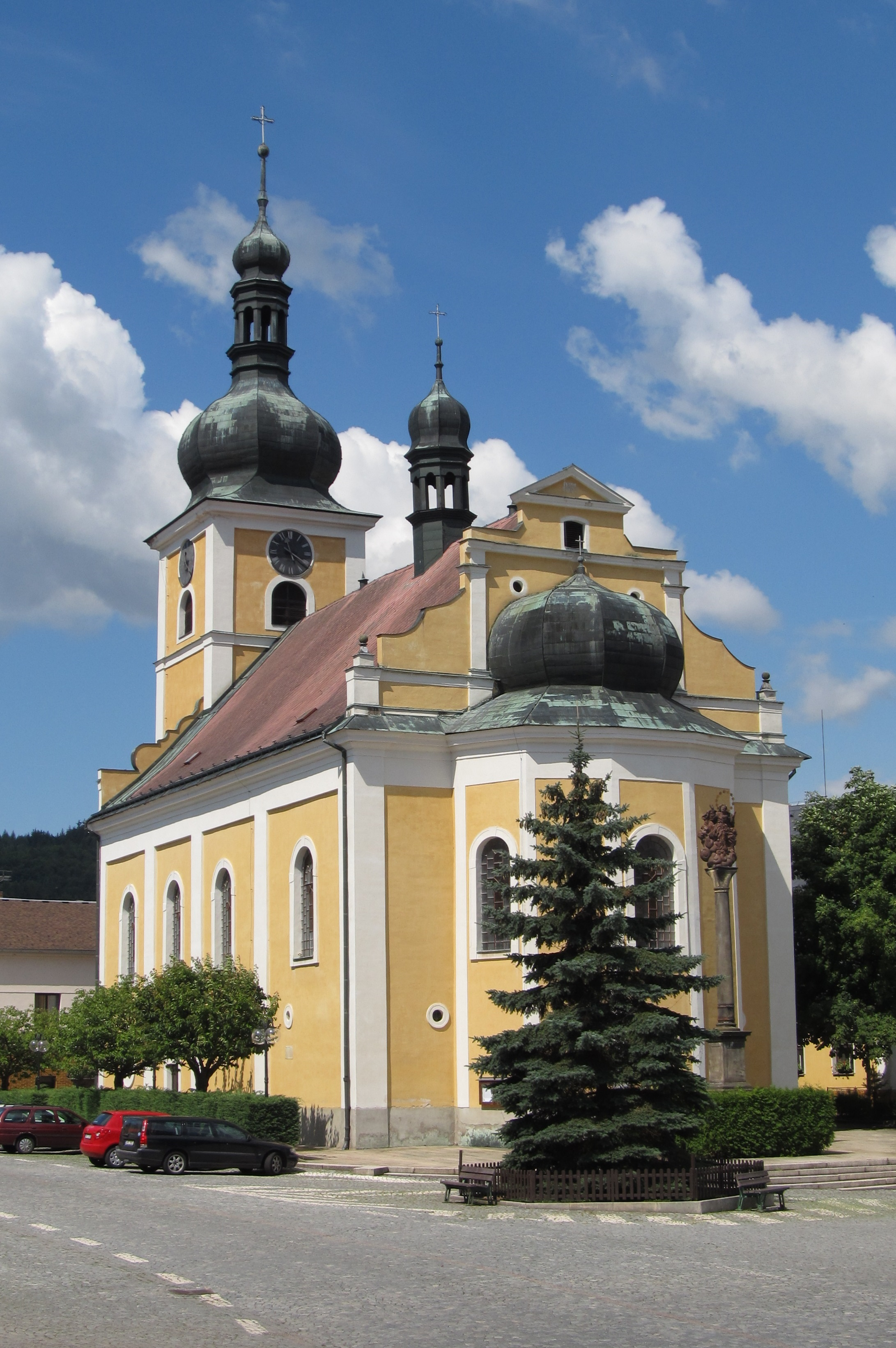 The Church of St. Jakub Větší (James the Greater/James the Great) in Úpice